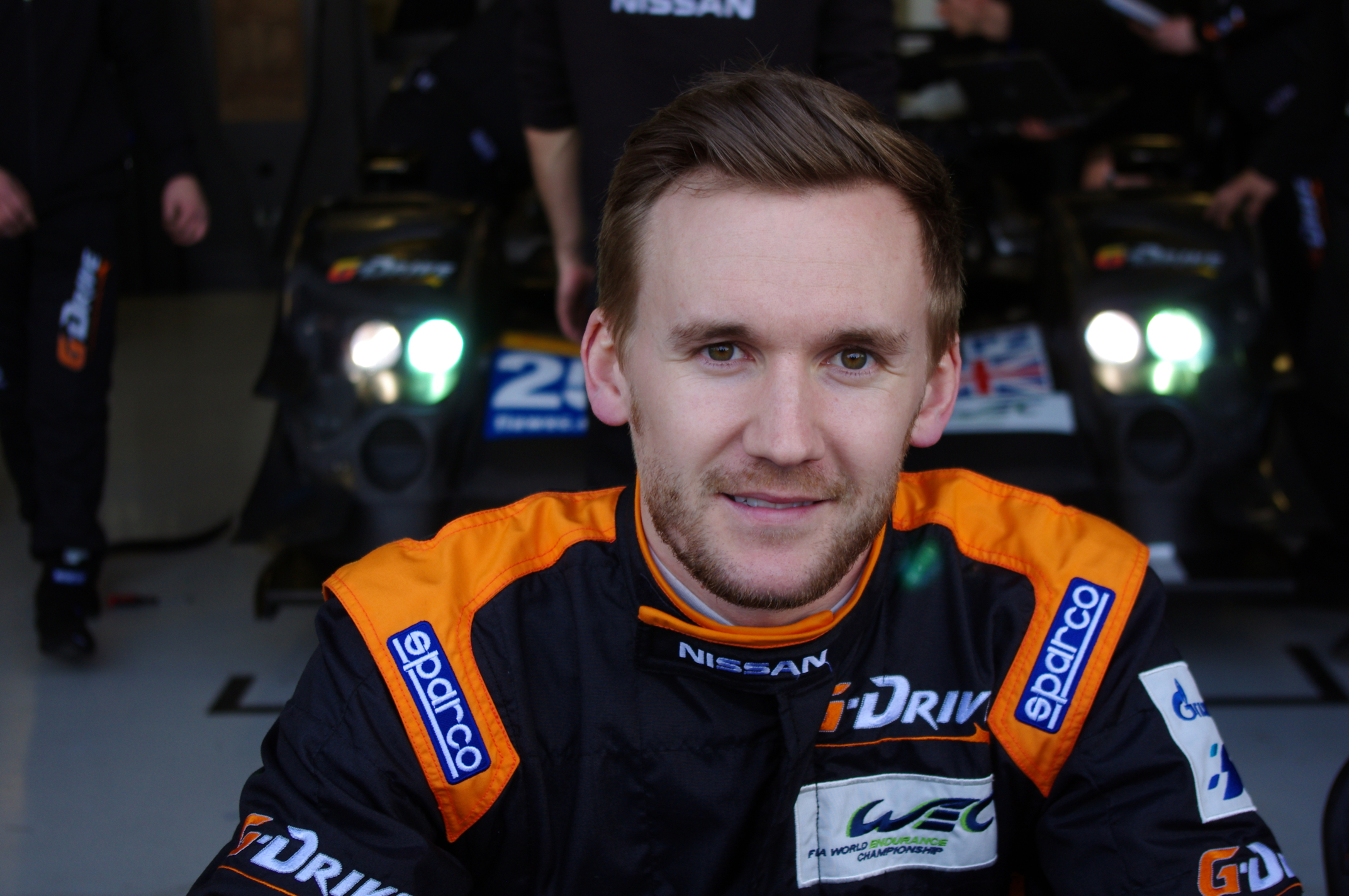 Silverstone 6 Hours 2013 FIA World Endurance Championship (WEC)